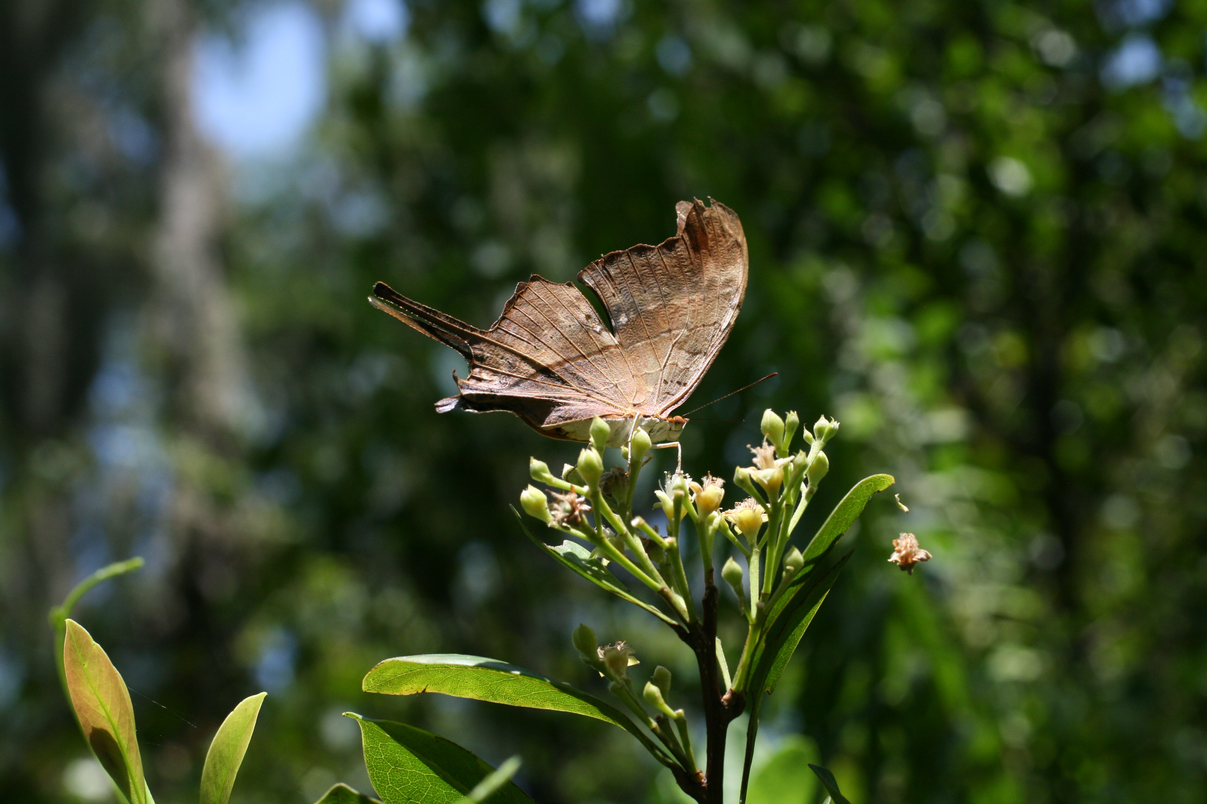 Ruddy Daggerwing. Picture taken in Loxahatchee nature refuge, Florida.